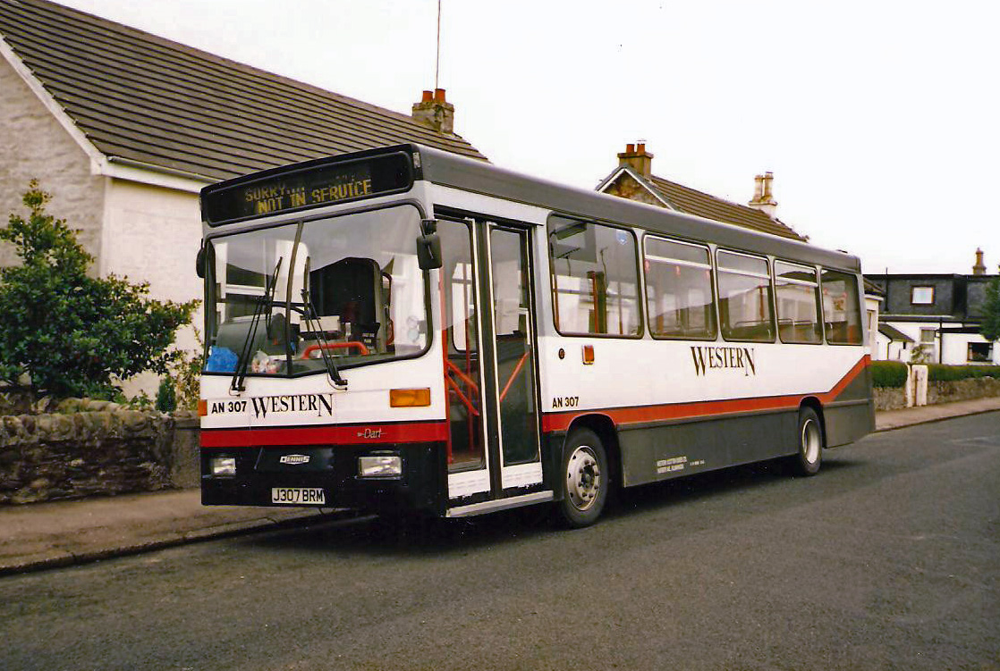 Western Scottish's AN 307 (J307 BRM), a Dennis Dart/Alexander Dash. This was one of 2 identical vehicles that were based in Dunoon, Argyll c. 1993